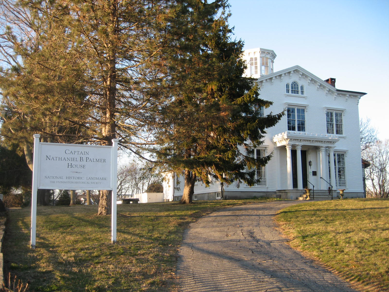 The Capt. Nathaniel B. Palmer House in Stonington, CT, USA. The Capt. Nathaniel B. Palmer House in Stonington, CT, USA. Front view, with sign.